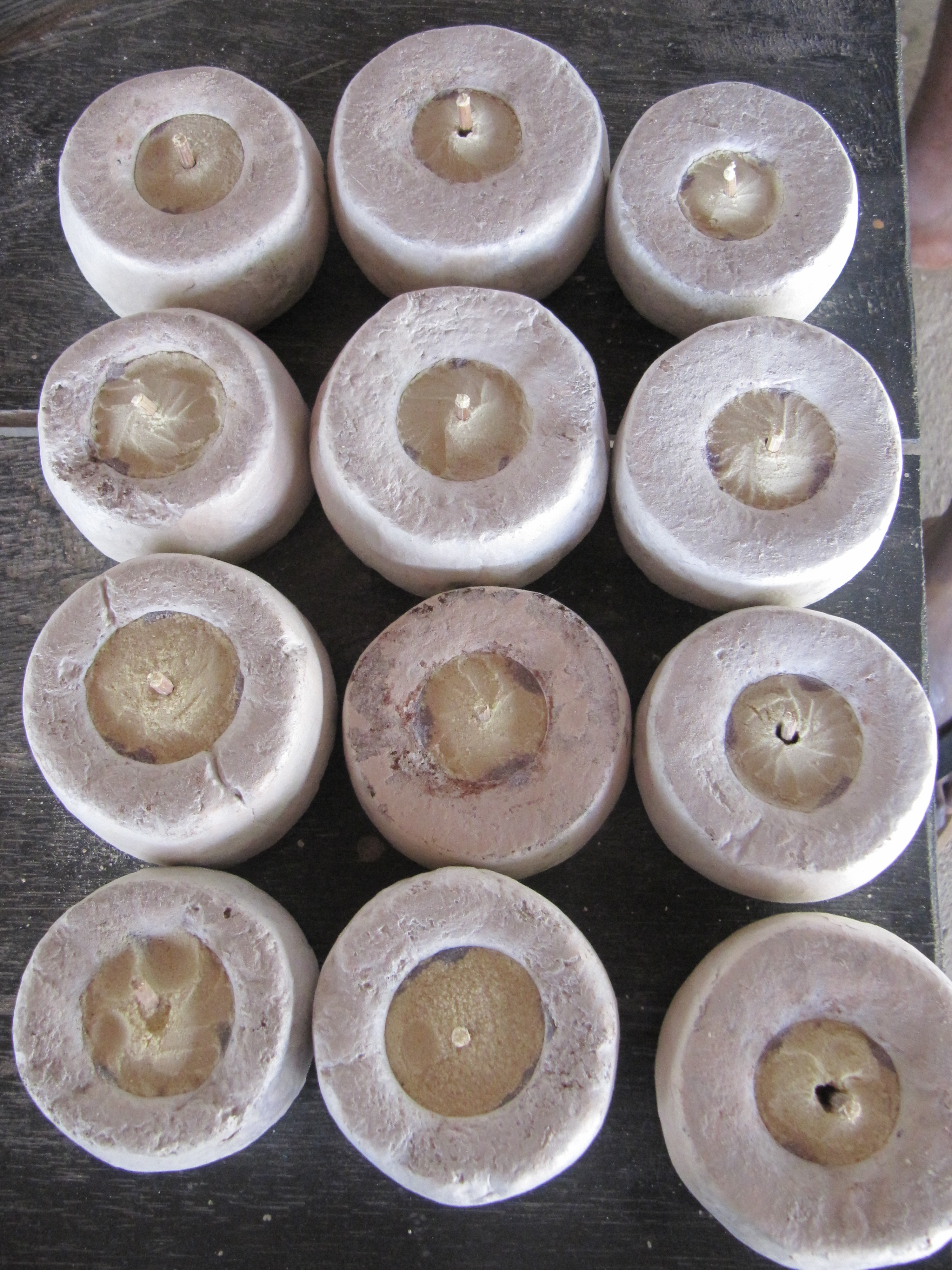 The templates are ready for the oven. This is an image of Cultural Fashion or Adornment from Ghana